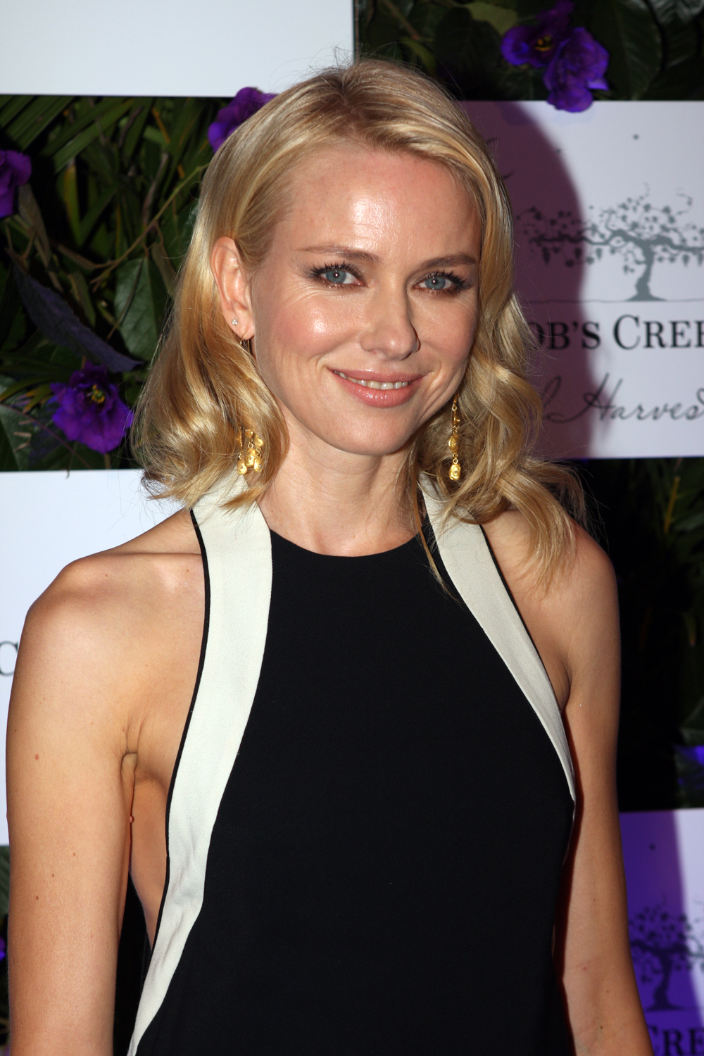 Naomi Watts Promotes Jacob's Creek Cool Harvest At Centennial Park